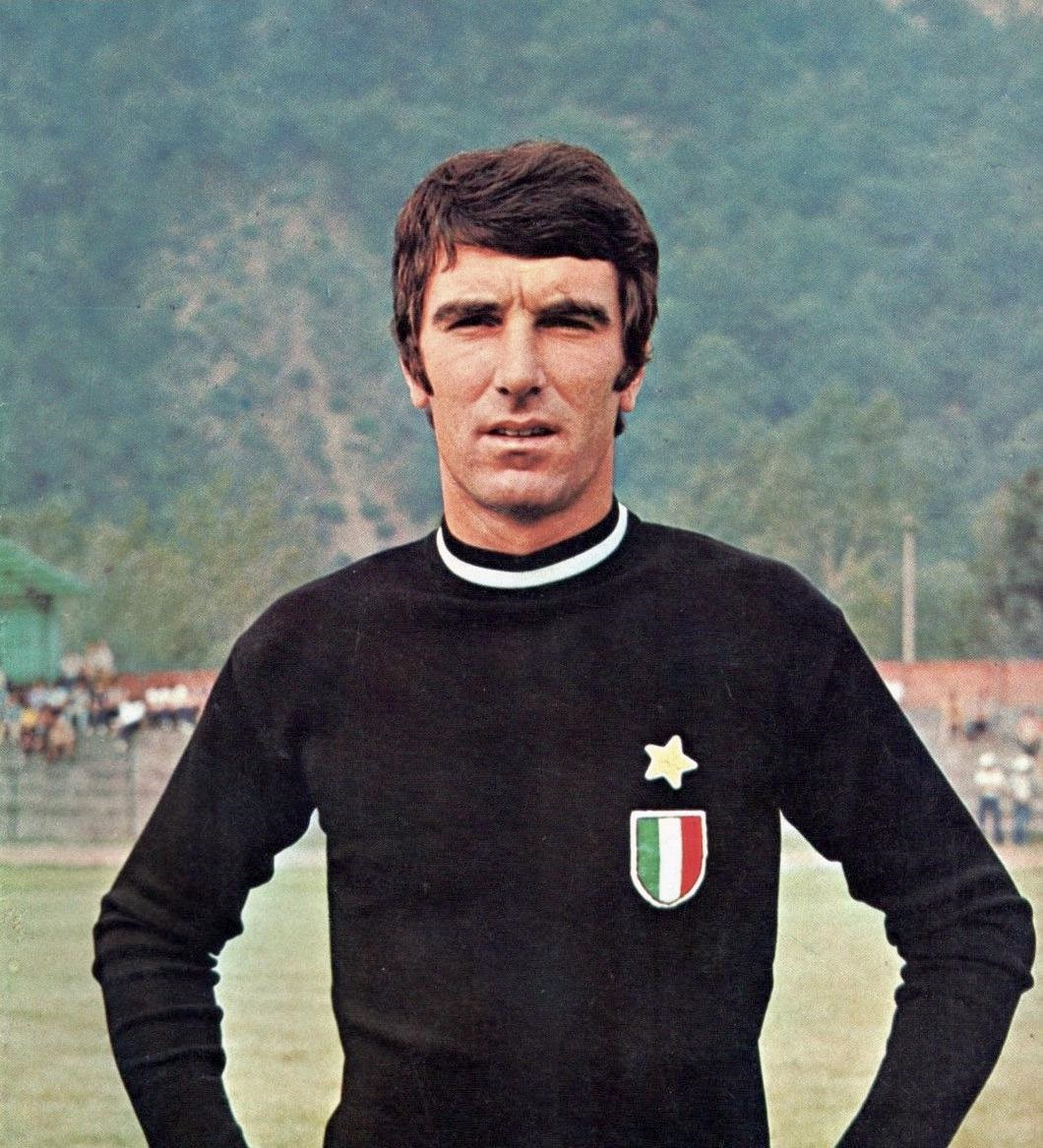 Italian goalkeeper Dino Zoff with Juventus F.C. in the summer 1972.